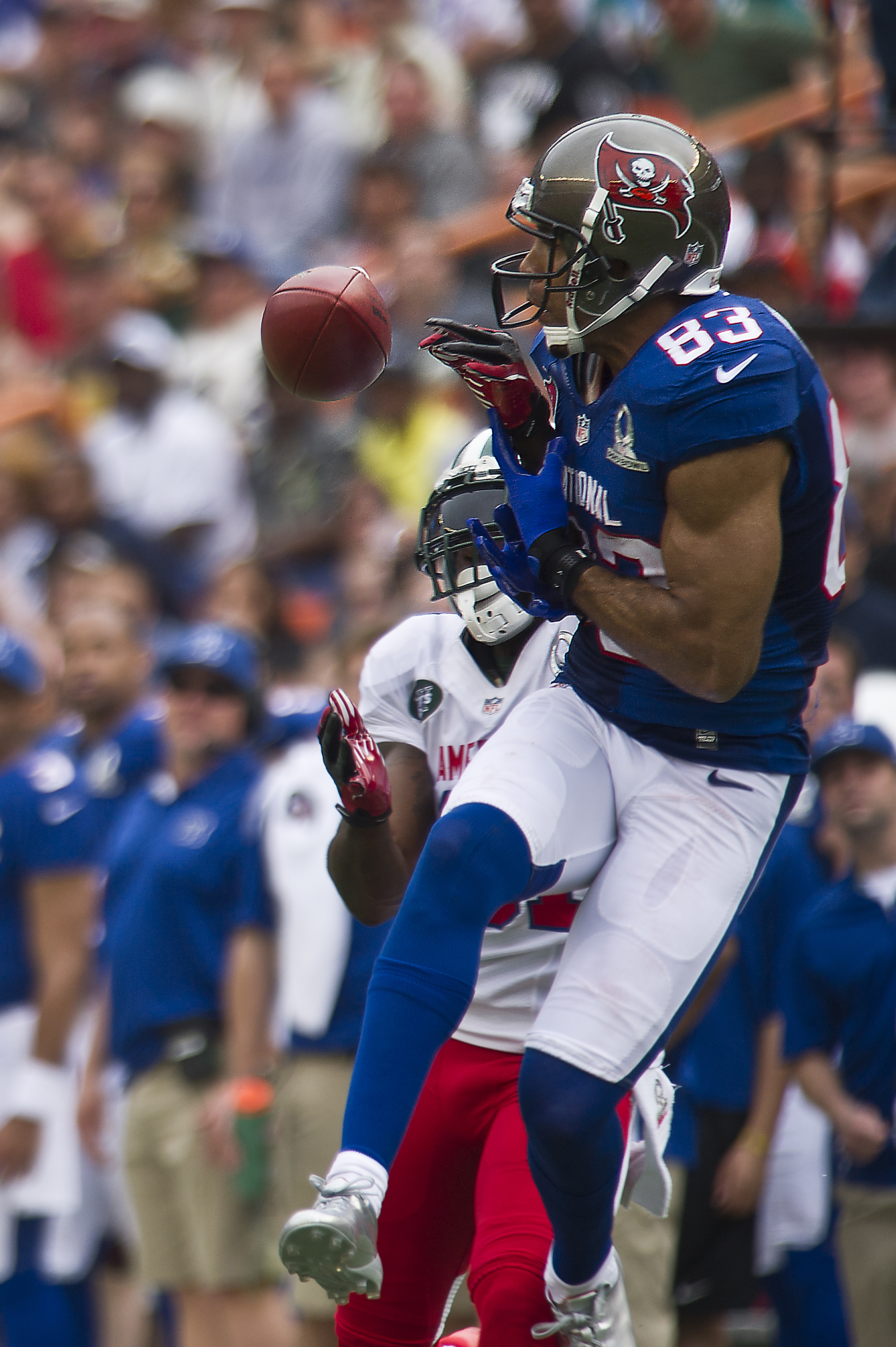 Vincent Jackson during 2013 Pro Bowl